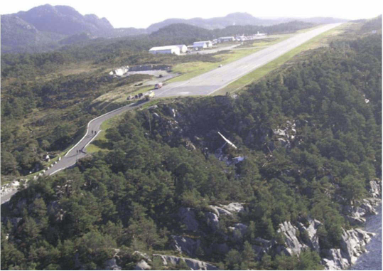 Overview of Stord Airport, Sørstokken. The wreckage of Atlantic Airways Flight 670 is in the foreground.